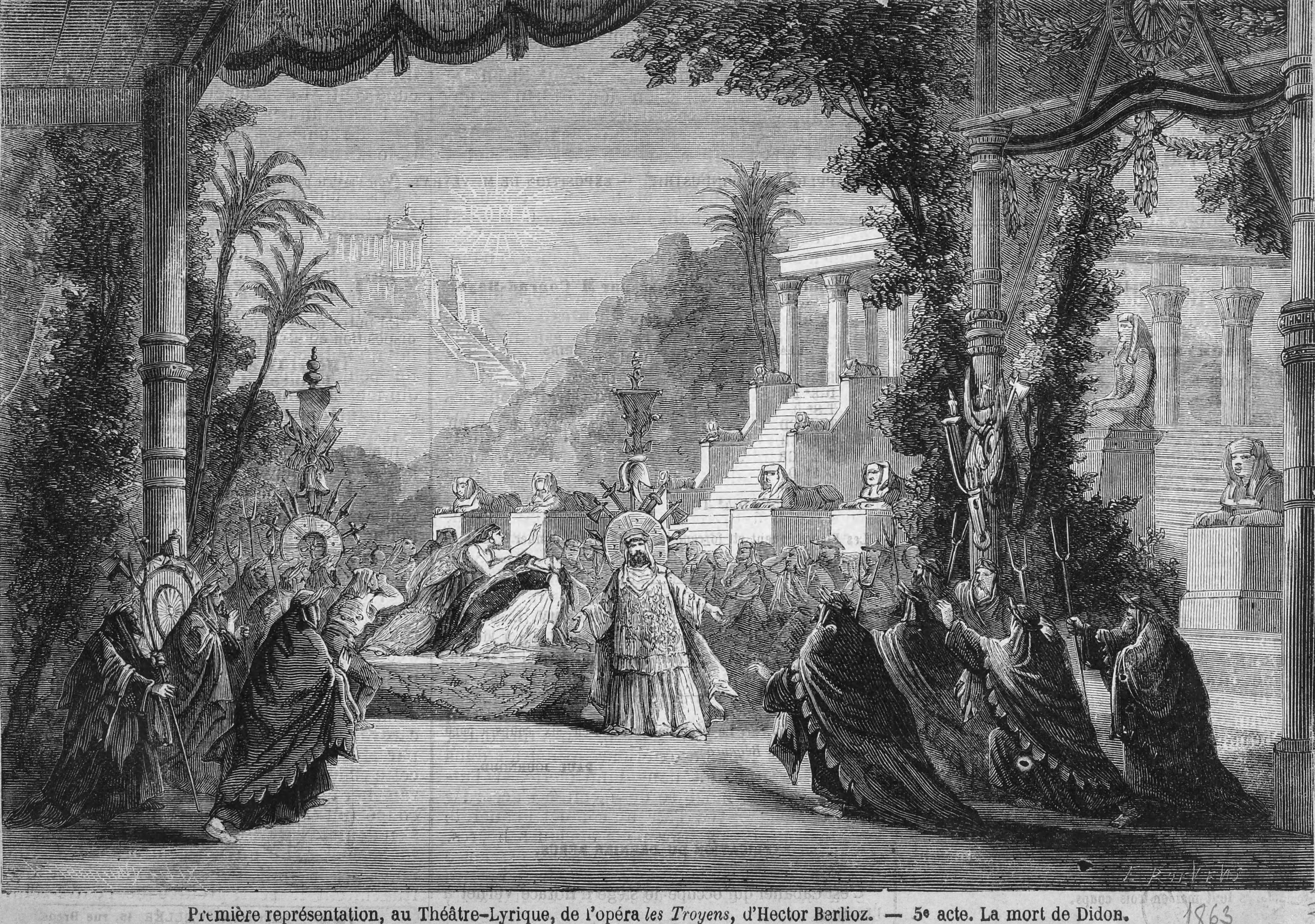 Press illustration of the staging of the last act ("The death of Didon") for the premiere of Berlioz's Les Troyens à Carthage (Act 5) at the Théâtre Lyrique on 4 November 1863.